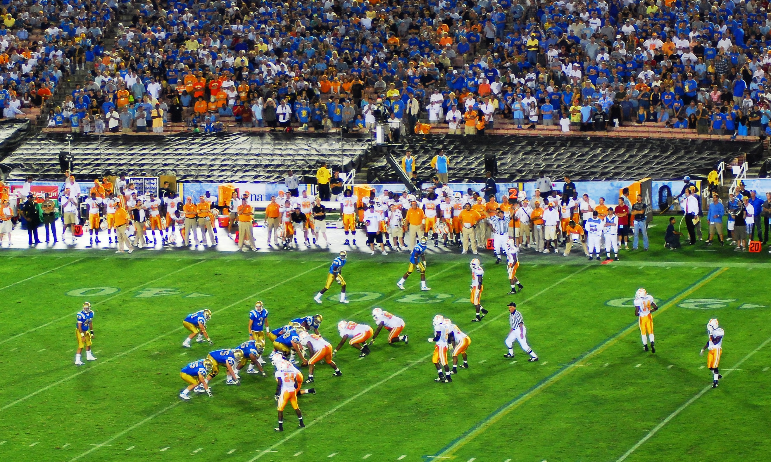 The UCLA Bruins on offense in the home-opener game against the Tennessee Volunteers on September 1, 2008